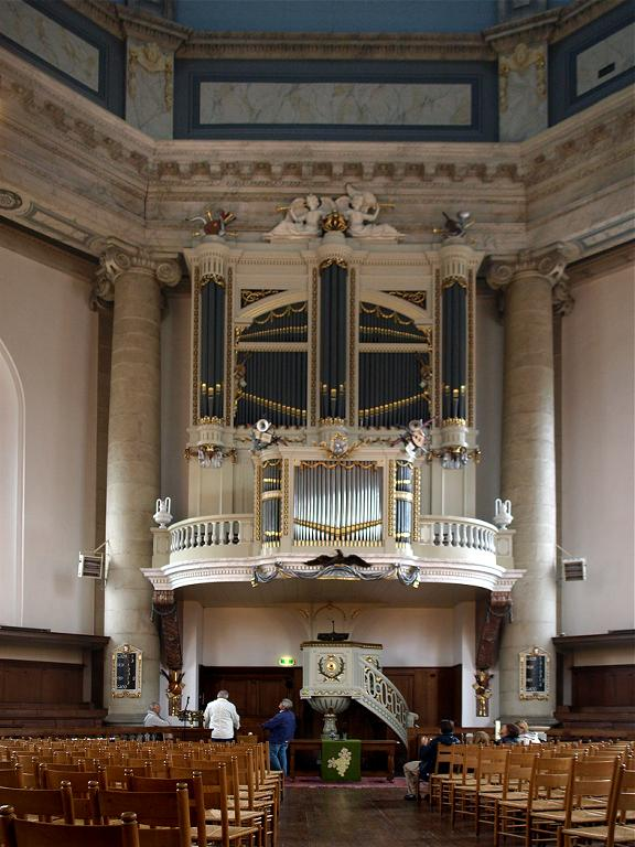 Middelburg (Netherlands),Oostkerk , photo 2008